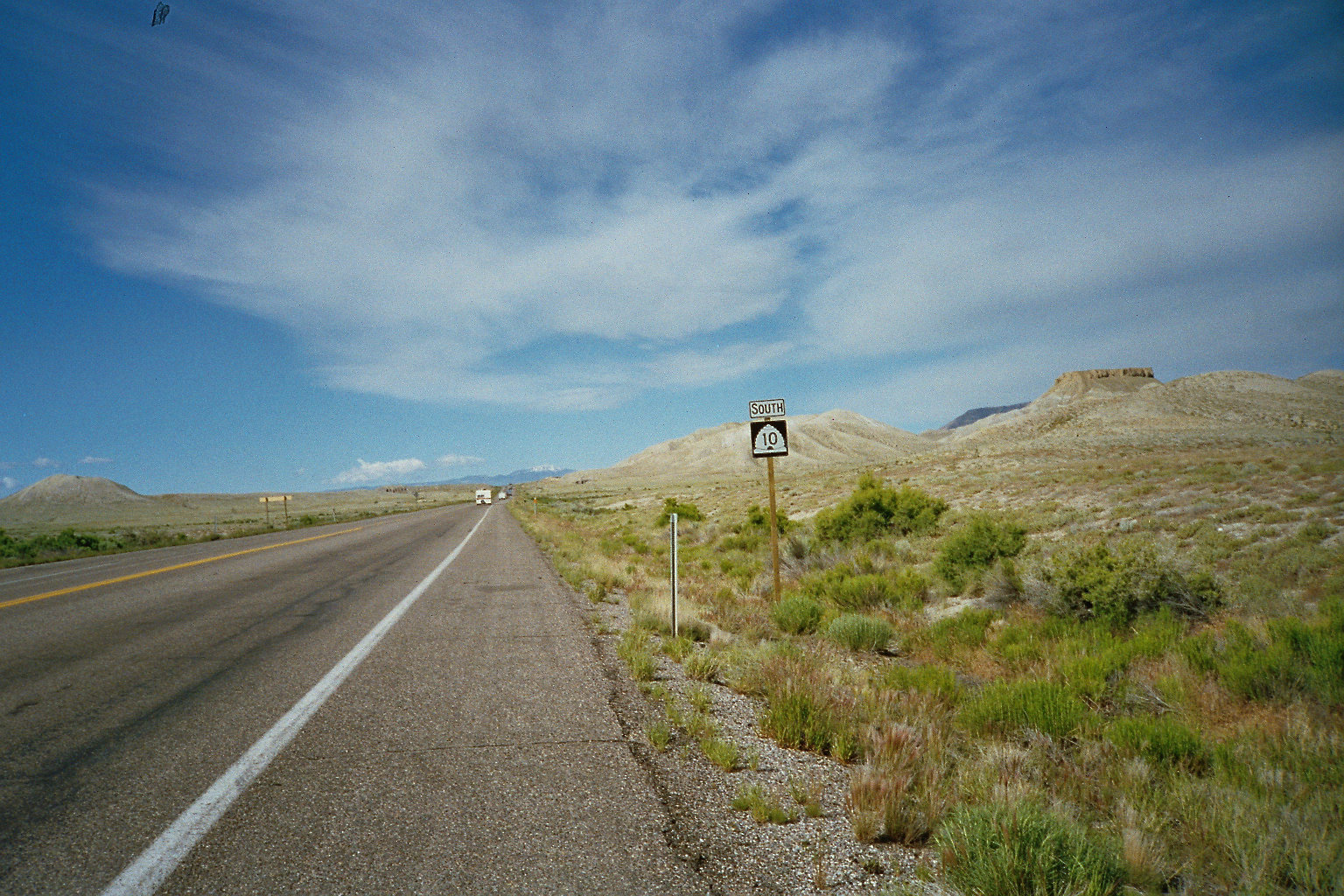 Emery County State Route10 south; picture taken by myself in June 2005 author: R.Blauert Dk4hb